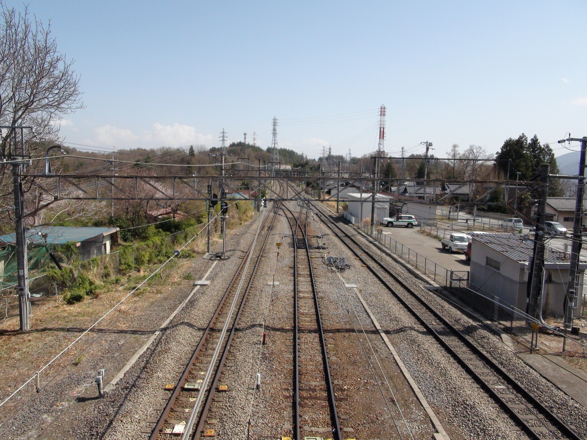 The east side is photoed from Hinoharu Station.